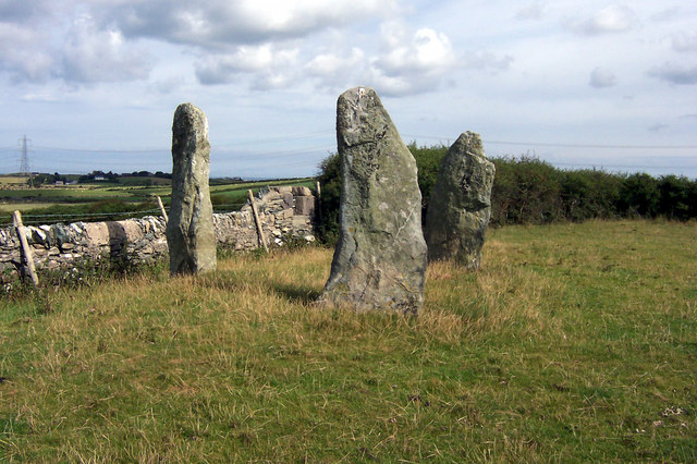 Standing Stones - Llanfechell. North west of Llanfechell, this bronze age ritual monument is the only example on Anglesey of three standing stones.